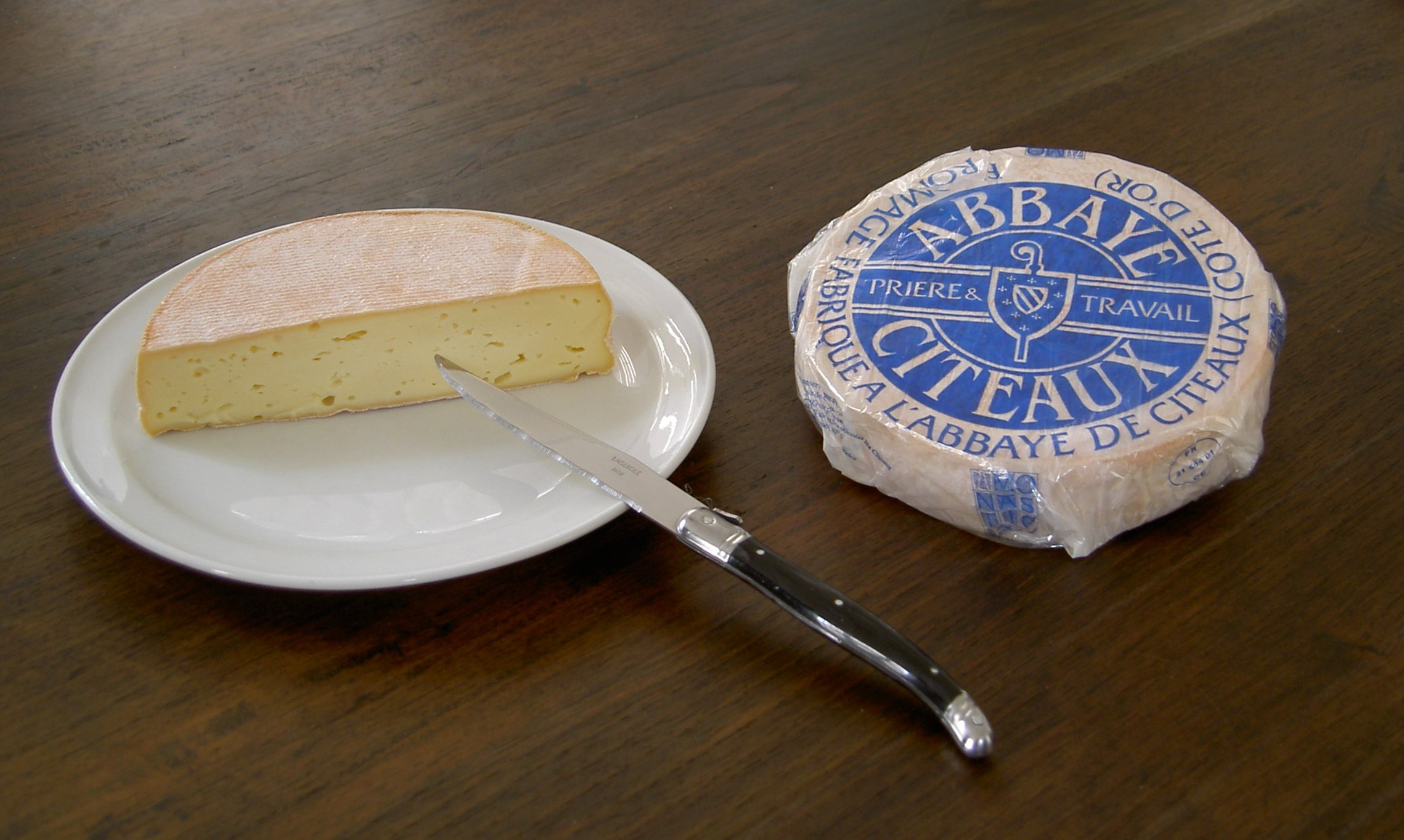 Trappist cheese of the Cîteaux Abbaye